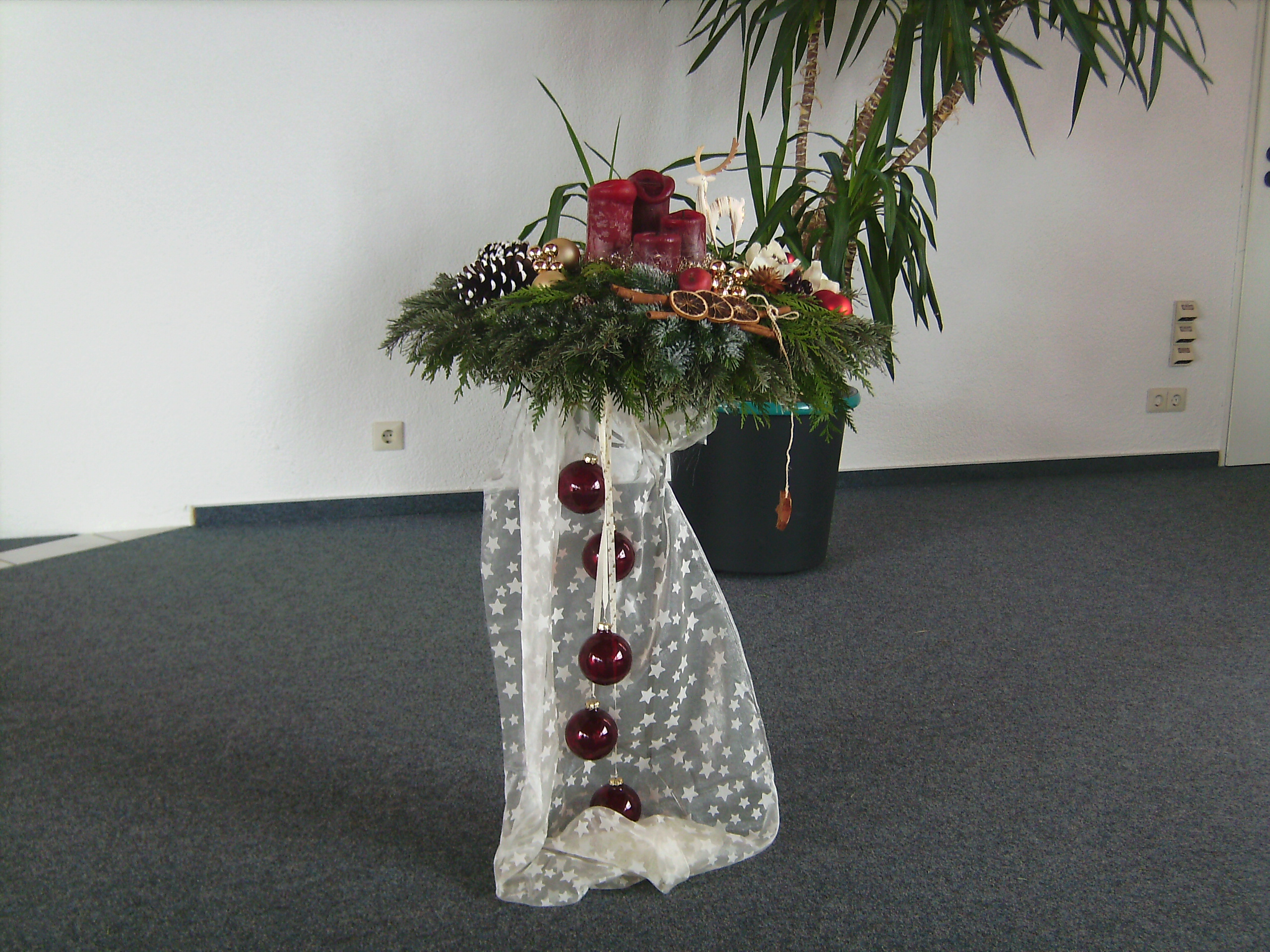 Advent wreath 2009 in the Kreuzkirche Mainz (Cross Church Mainz), church of the Evangelical Free Church Congregation (Baptists) in Mainz-Gonsenheim, Karlsbader Straße 7; Rhineland-Palatinate; Germany